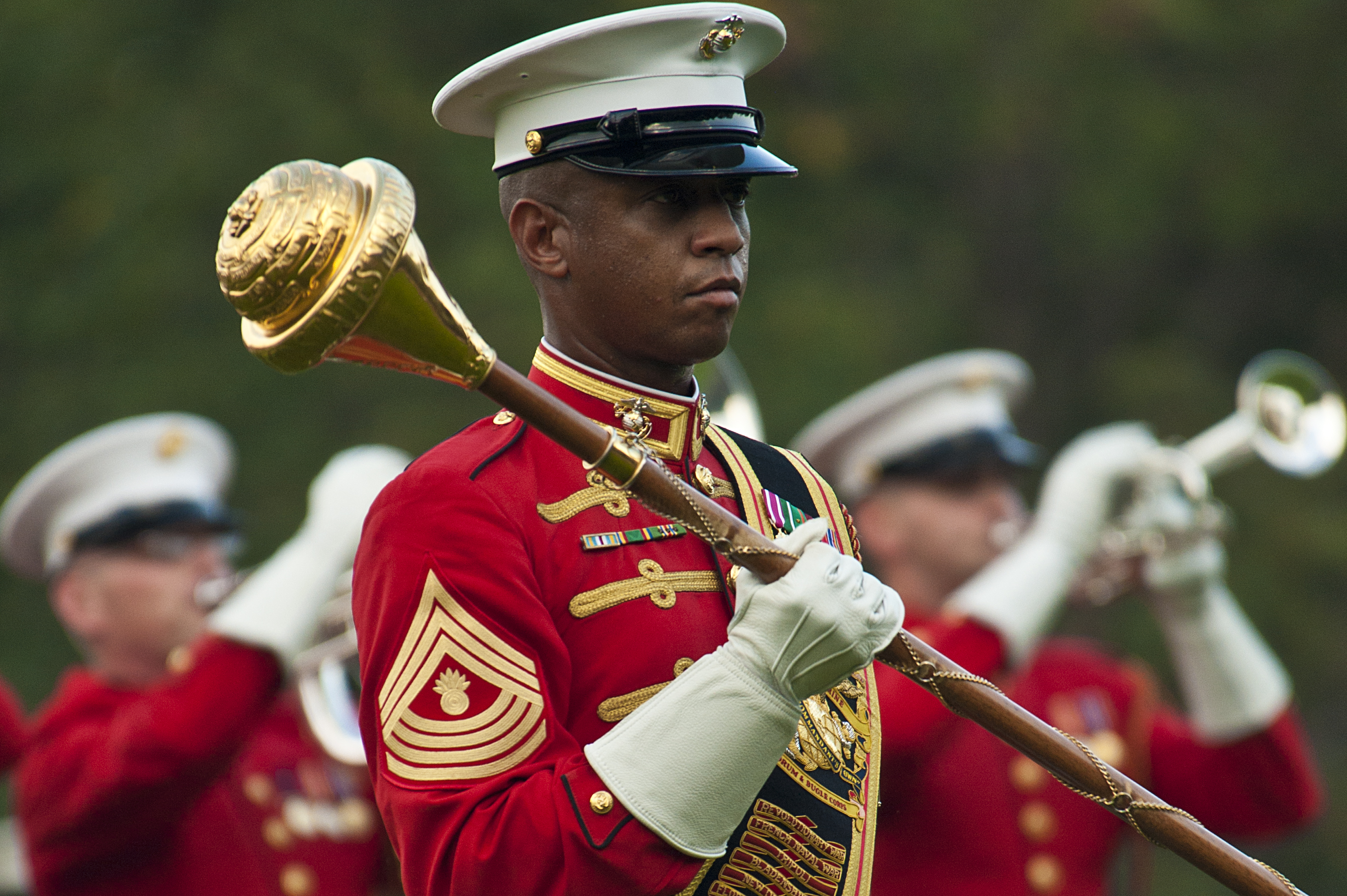 Master Gunnery Sgt. Kevin Buckles, Marine Drum & Bugle Corps drum major, directs his musicians during a Tuesday Sunset Parade at the Marine Corps War Memorial in Arlington, Va., Aug. 14.